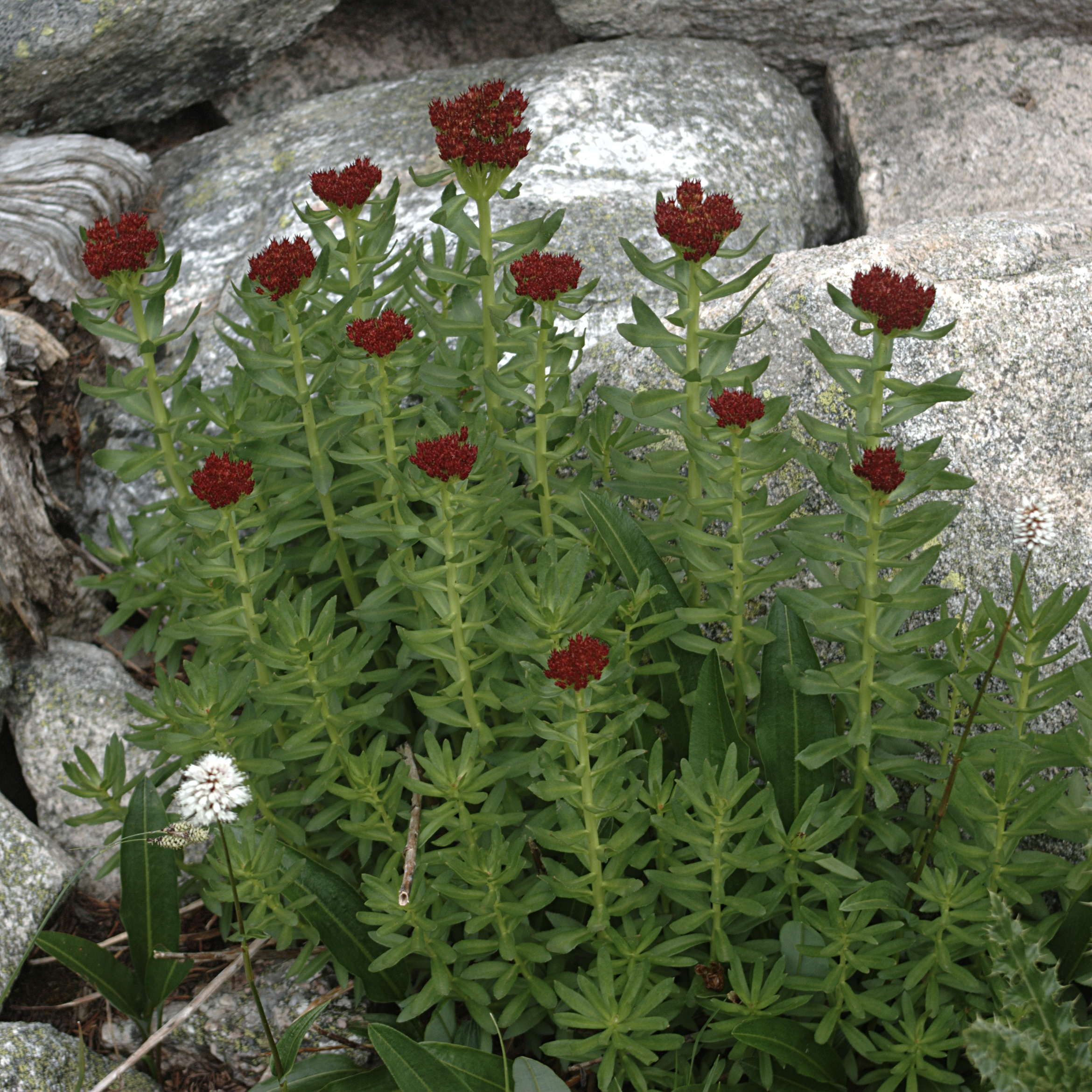 King's Crown, Rhodiola integrifolia, slope of Tesuque Peak near Santa Fe Ski Basin, Santa Fe National Forest, New Mexico. White flowers of Bistort, Polygonum bistortoides, also visible.